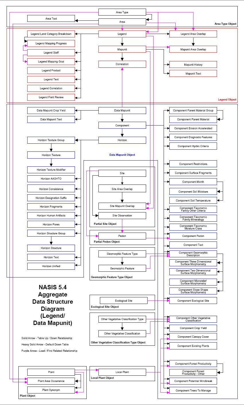 Traditional Aggregate Data Structure Diagram (National Soil Information System NASIS, Legend/Map Unit) (11/13/07)